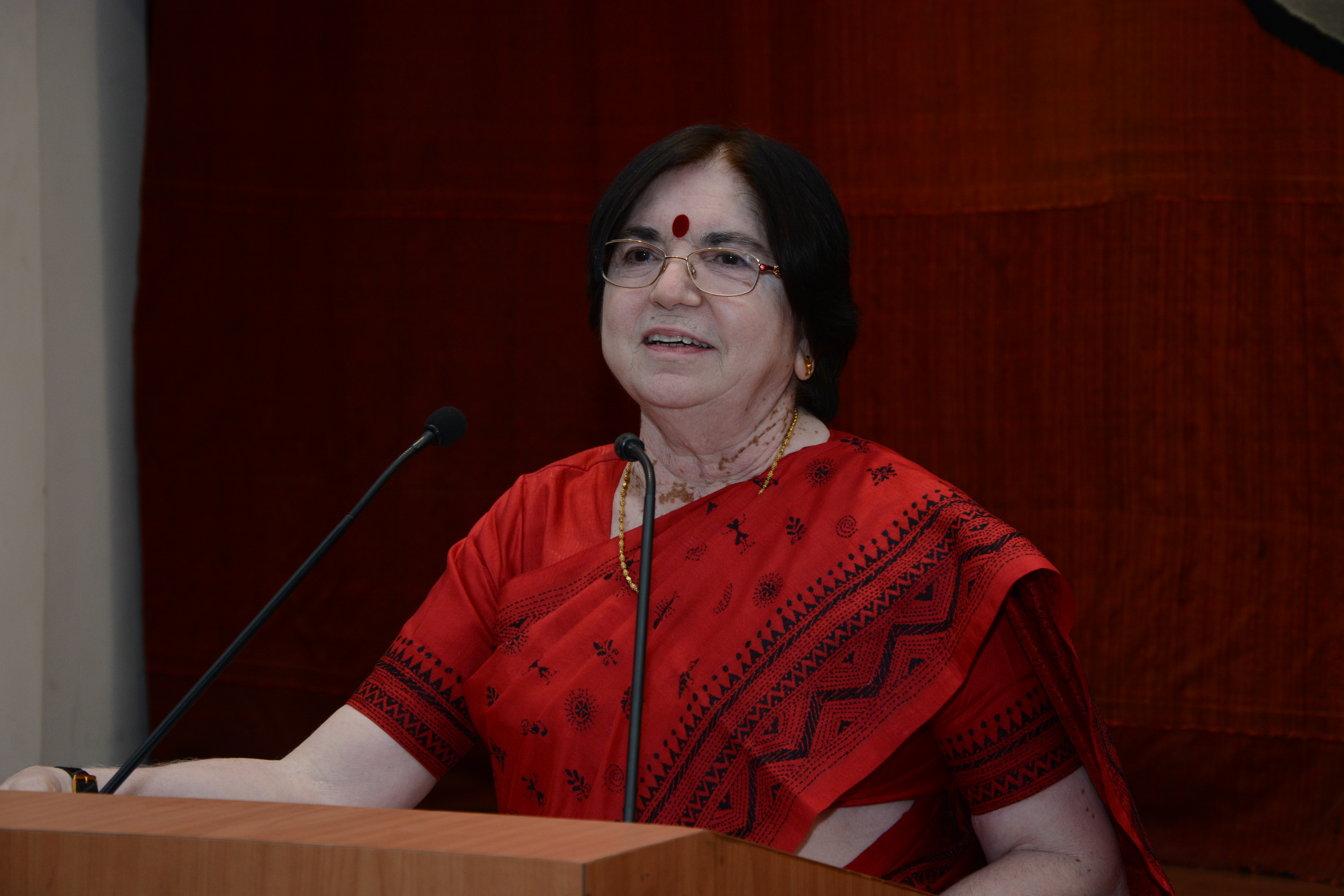 Gujarati writer